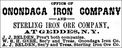 Onondaga Iron Works and Sterling Iron Ore Company in Geddes, New York - J. J. Beldon, president